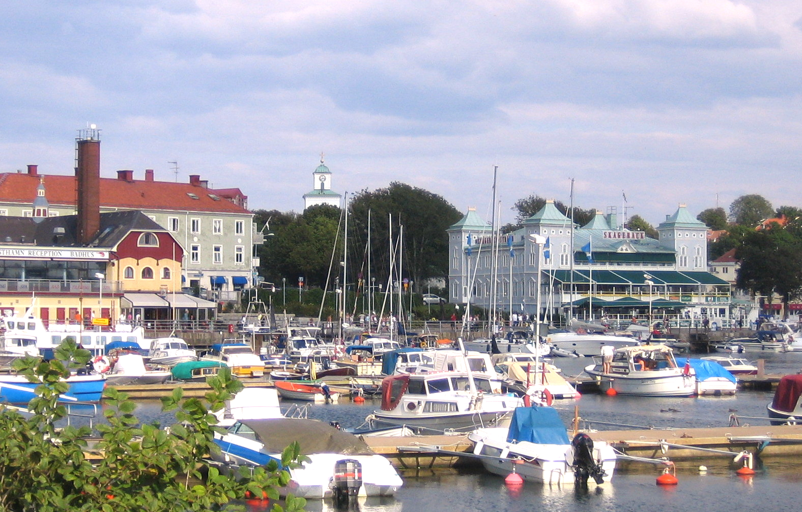 Picture of the south harbour in Strömstad.